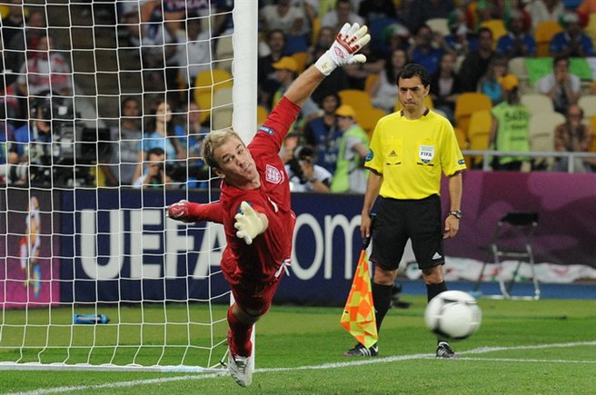 Joe Hart at Euro 2012 match against Italy